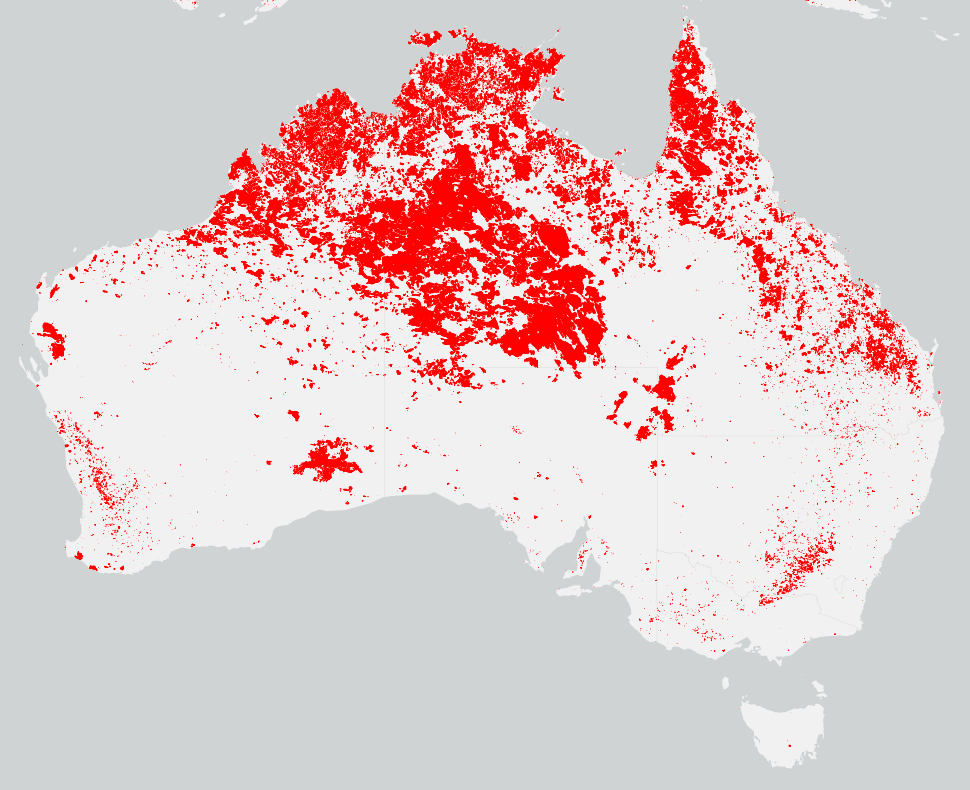 Burned areas shown in red detected by NASA's MODIS imaging sensors onboard Terra & Aqua satellites from June 2011 to May 2012. We acknowledge the use of data and imagery from LANCE FIRMS operated by NASA's Earth Science Data and Information System (ESDIS) with funding provided by NASA Headquarters.